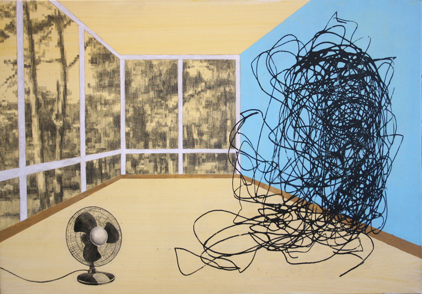 Painting "A Still Life with Two Objects" (2016) by Lithuanian artist Vytautas Tomasevicius. This work won an "Excellence" award in the Open category at the third Tokyo Art Olympia, the first Lithuanian artist so honoured.